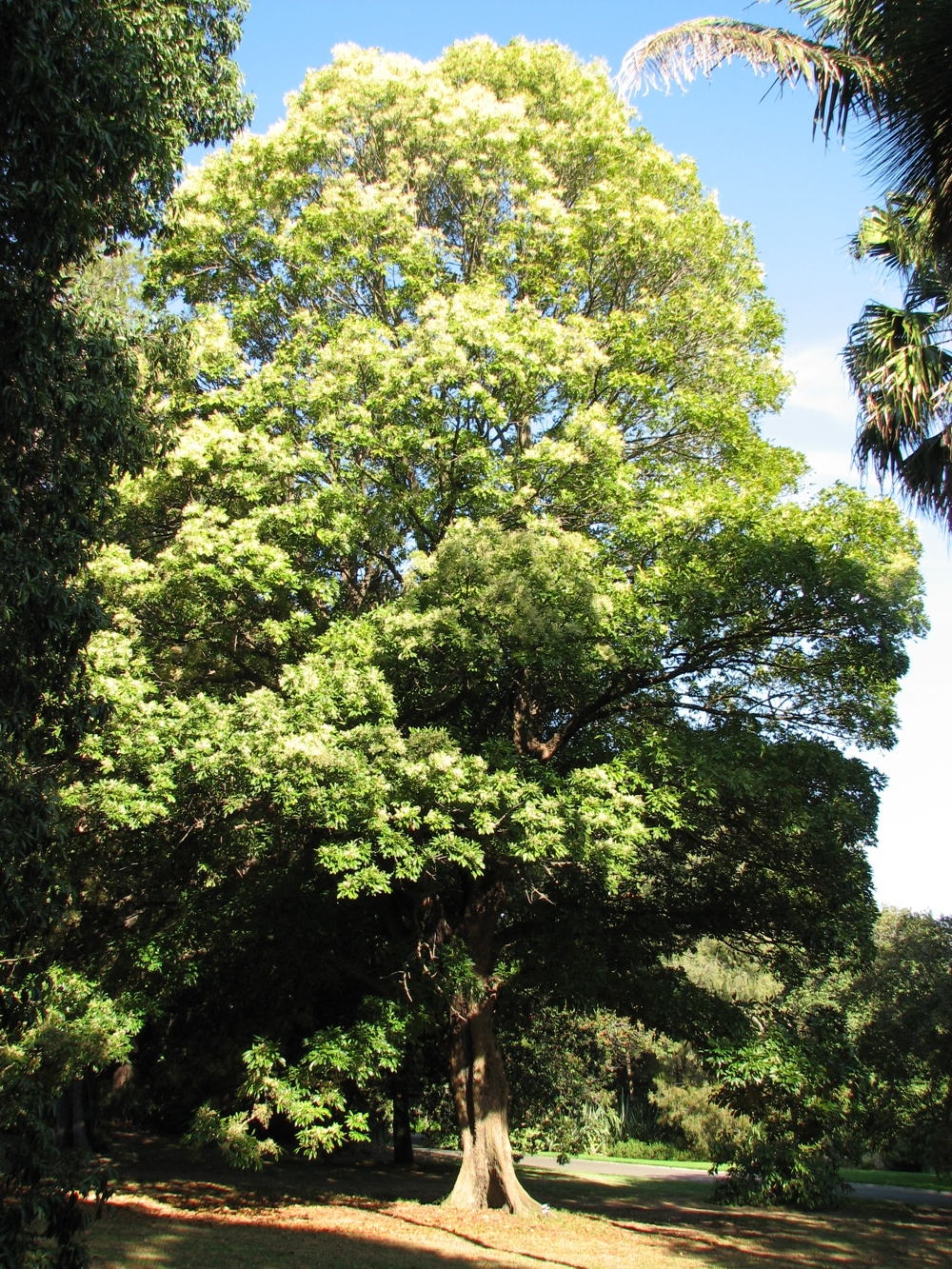 Argyrodendron actinophyllum (cultivated, labelled) Royal Botanic Gardens, Melbourne